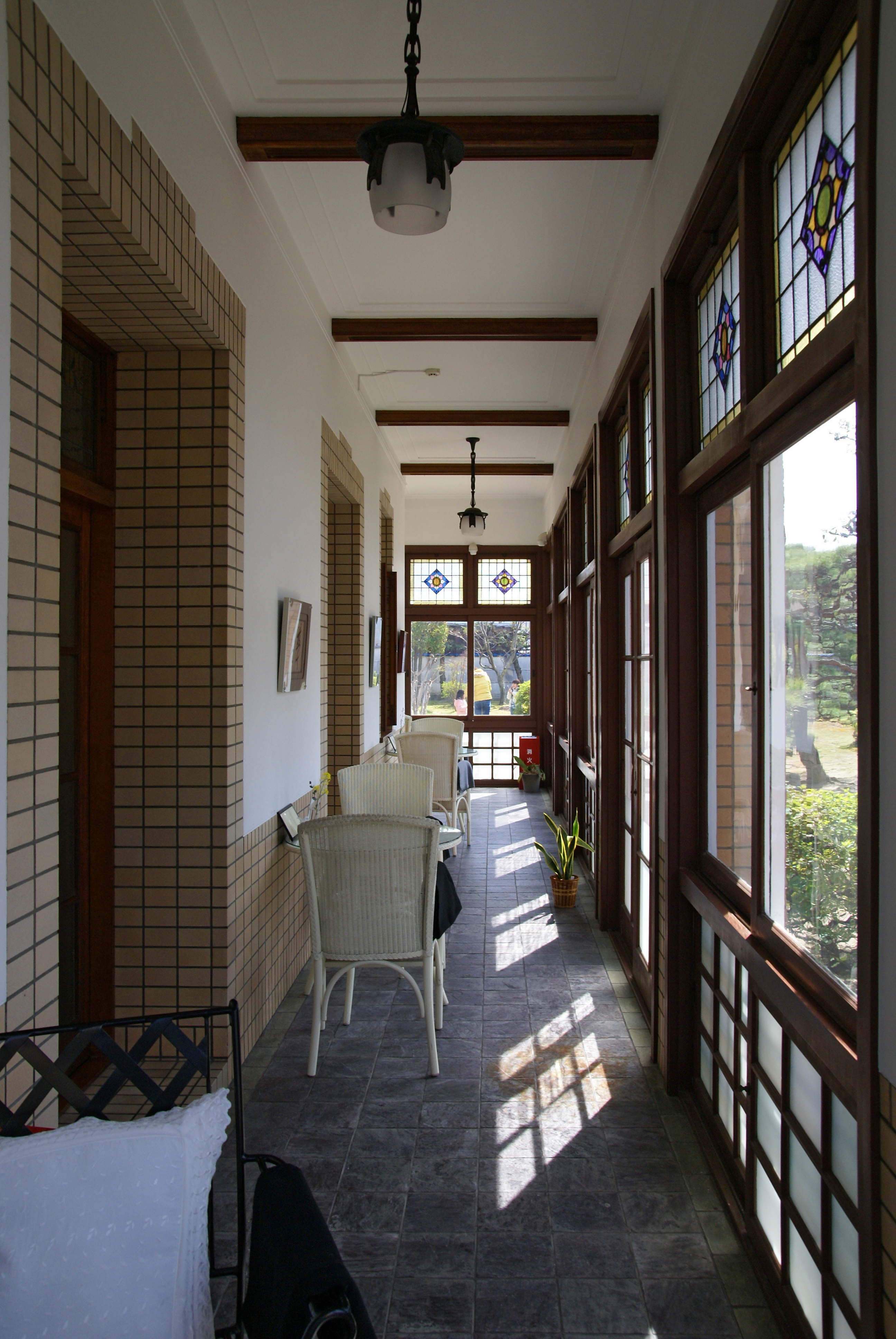 Tajiri Historic House in Tajiri, Osaka, Japan